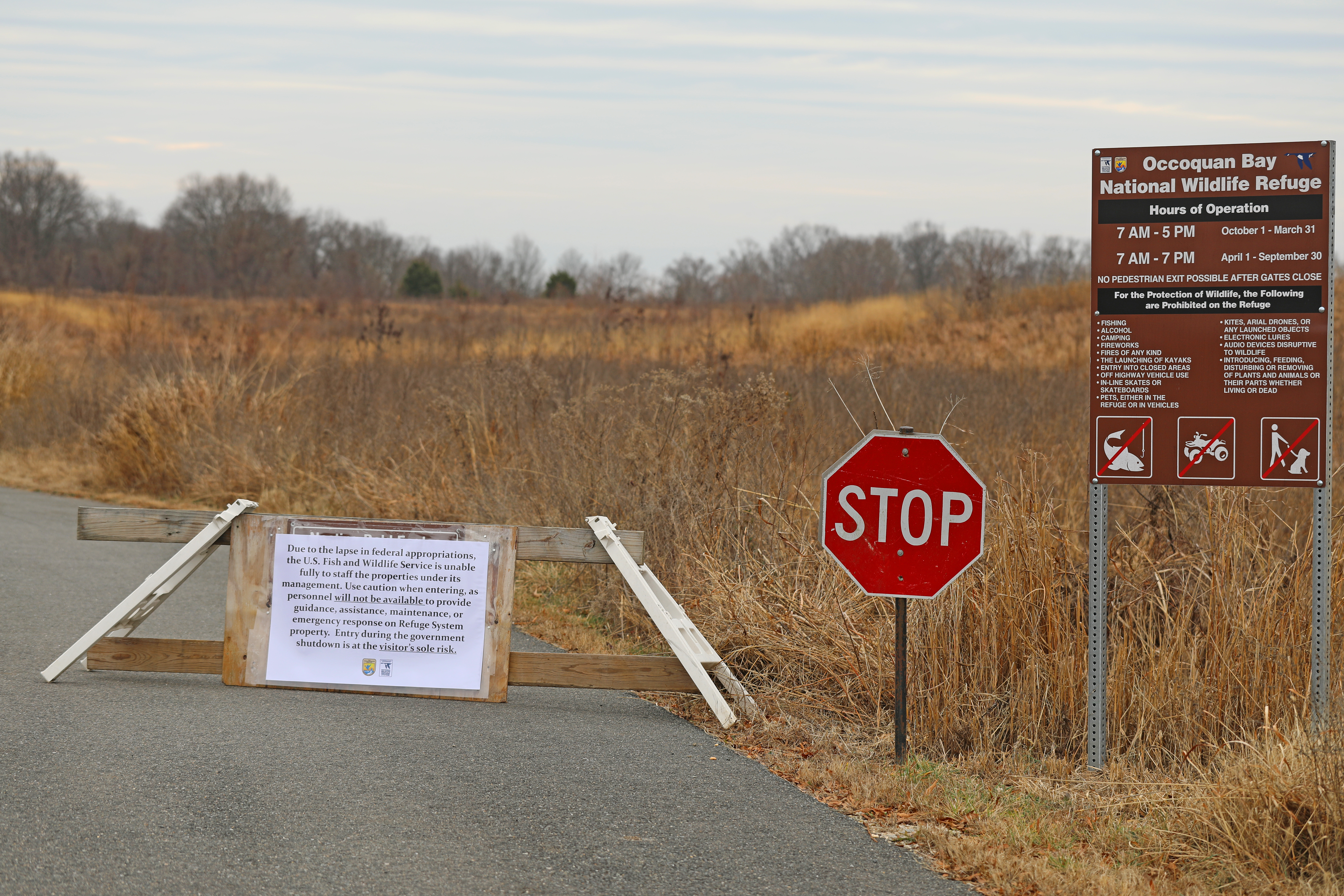 a sorry state of affairs Occoquan Bay shutdown (32717426758).jpg